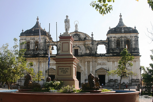 Maximo Jerez Monument in front of the Catedral de la Asunción in León, Nicaragua